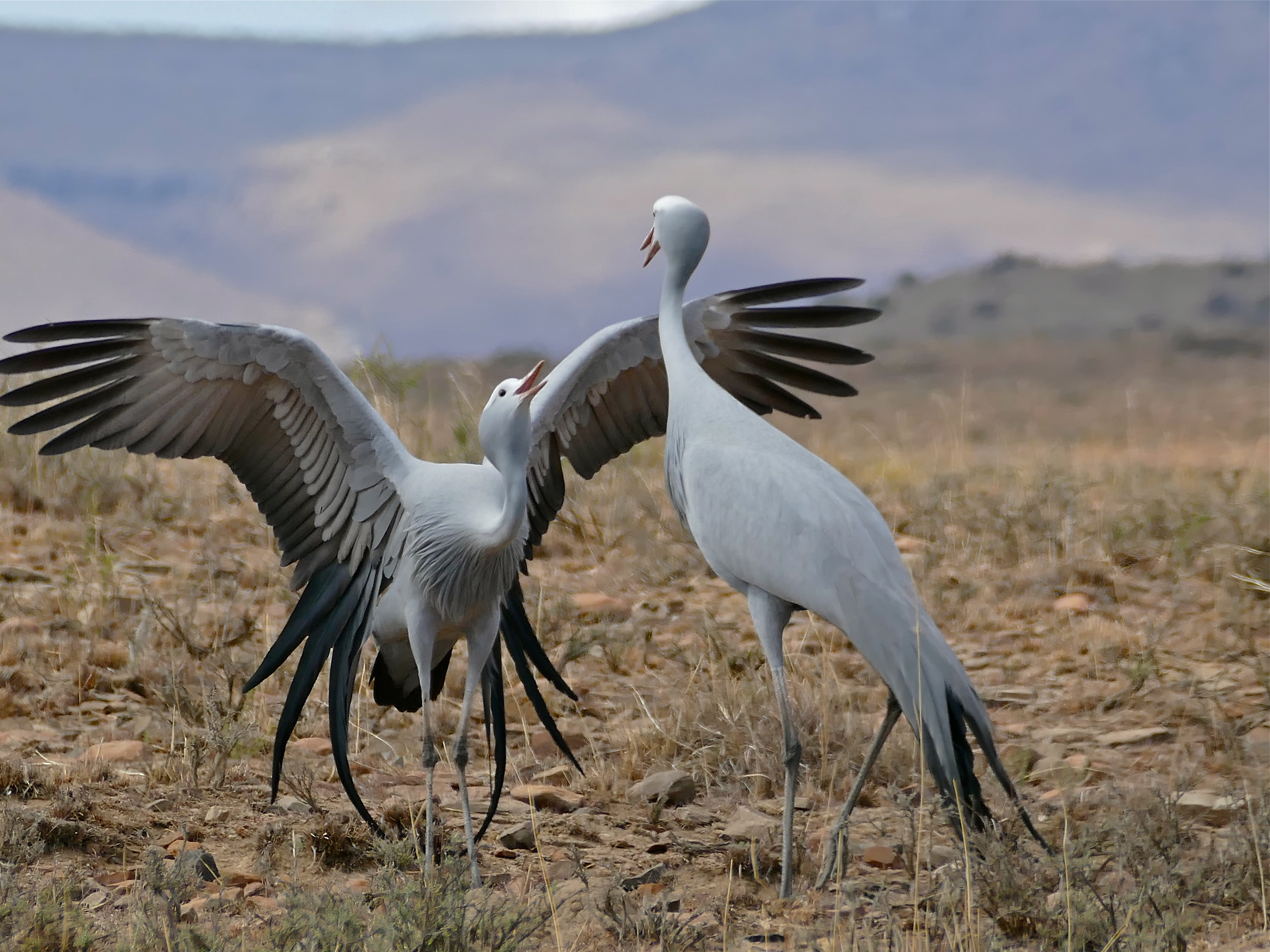 Link Road, Mountain Zebra NP, Eastern Cape, SOUTH AFRICA